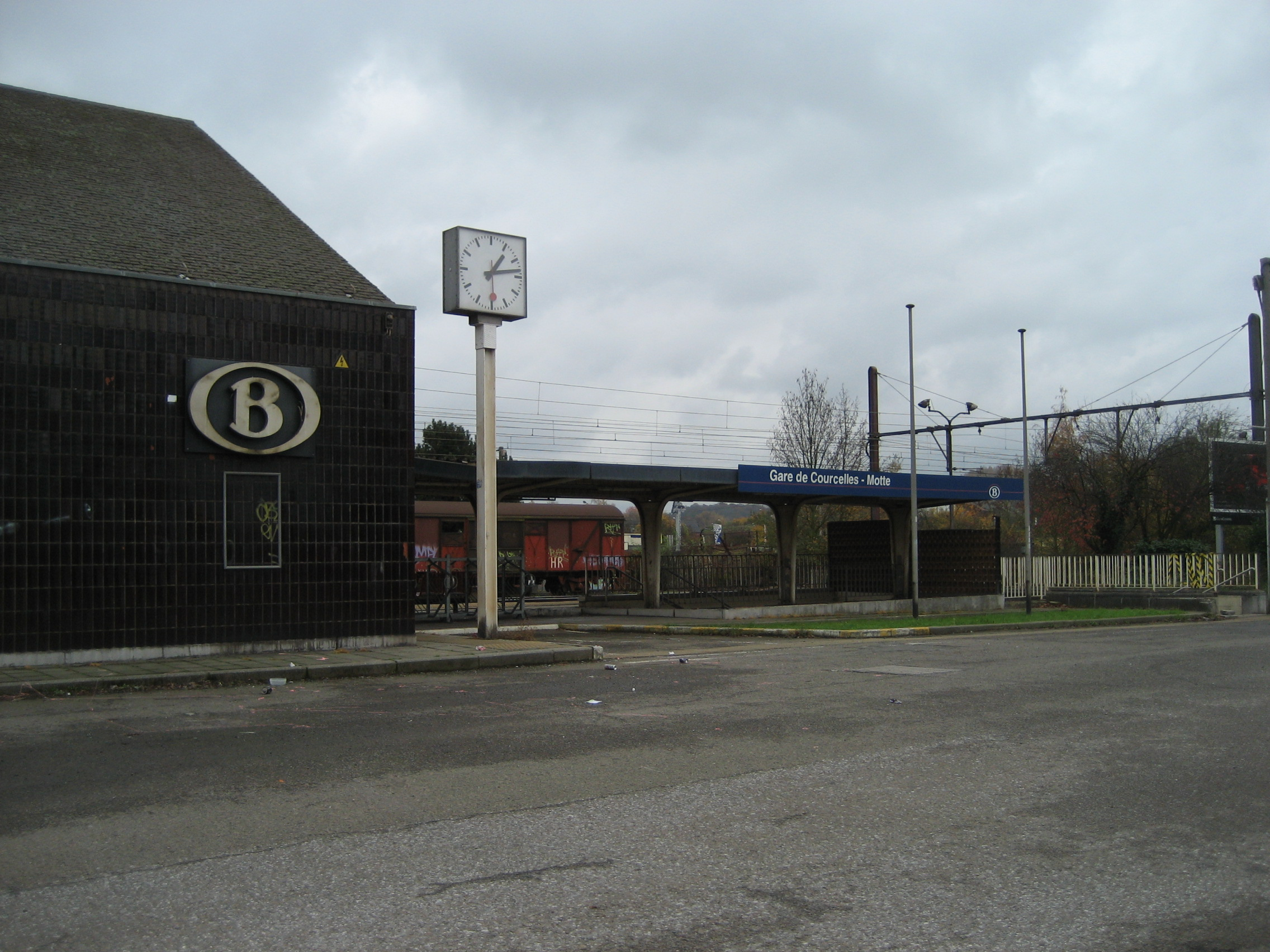 Courcelles-Motte train station